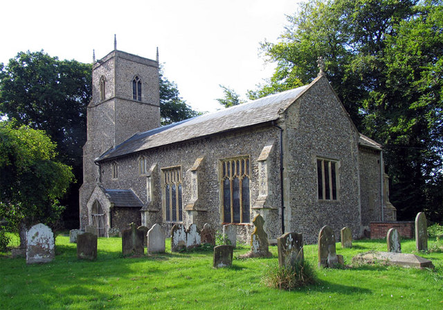 St Andrew Parish Church, Brinton, Norfolk